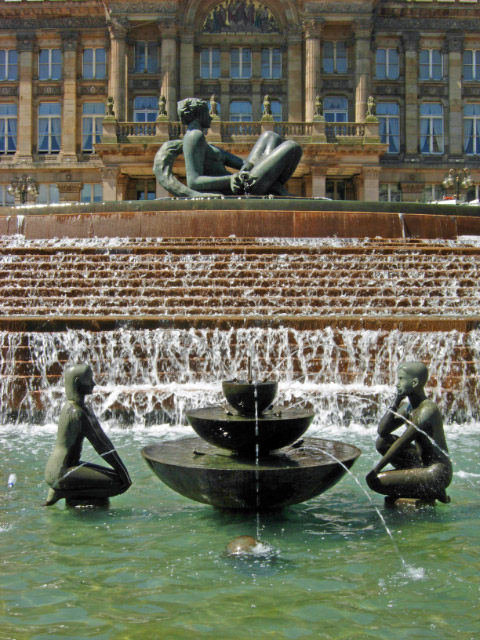 Victoria Square, Birmingham Victoria Square, although a long standing open space in central Birmingham (so-named after a statue of Queen Victoria was erected here in 1901), was completely re-designed in the early 1990s. The key new feature was this water display, the centrepiece being 'The River' statue by Dhruva Mistry. With typical Brummie humour, locals immediately rechristened this the 'Floozy in the Jacuzzi'. The lower fountain and statues represent youth while the Council House looks on ponderously behind.